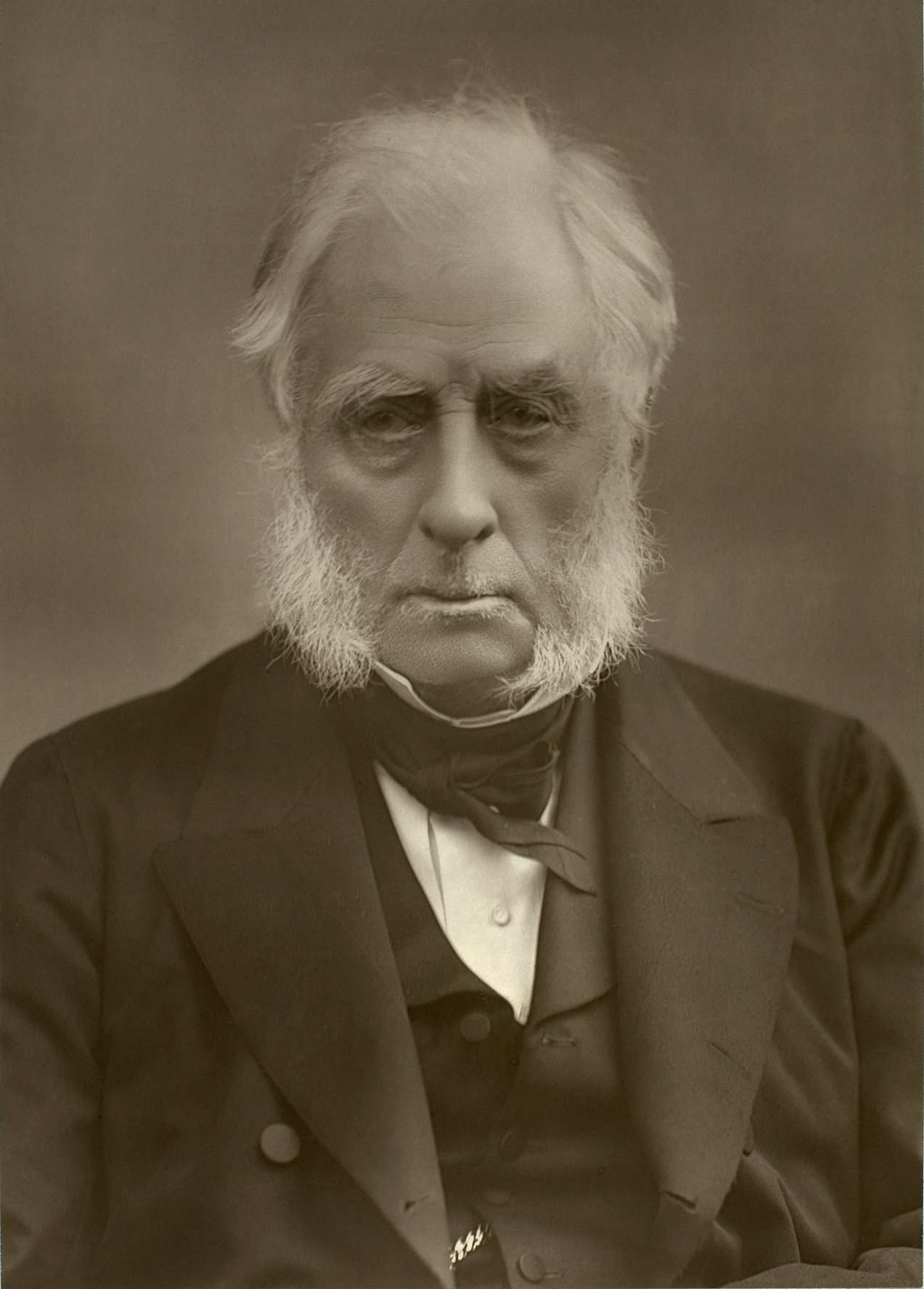 Woodburytype of William Cavendish, 7th Duke of Devonshire